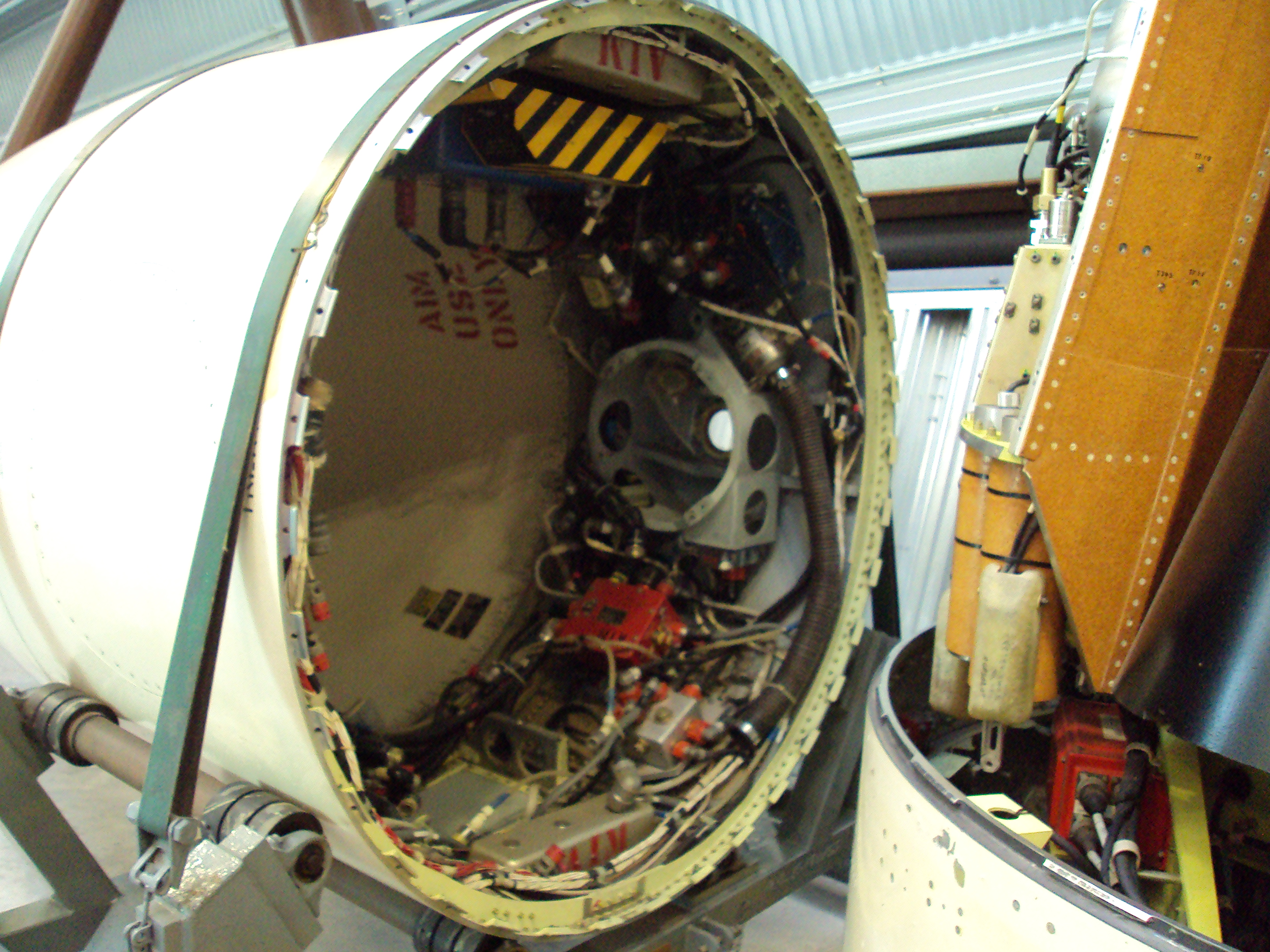 Photo of missile interior taken at the RAF Museum Cosford, Shropshire, England.